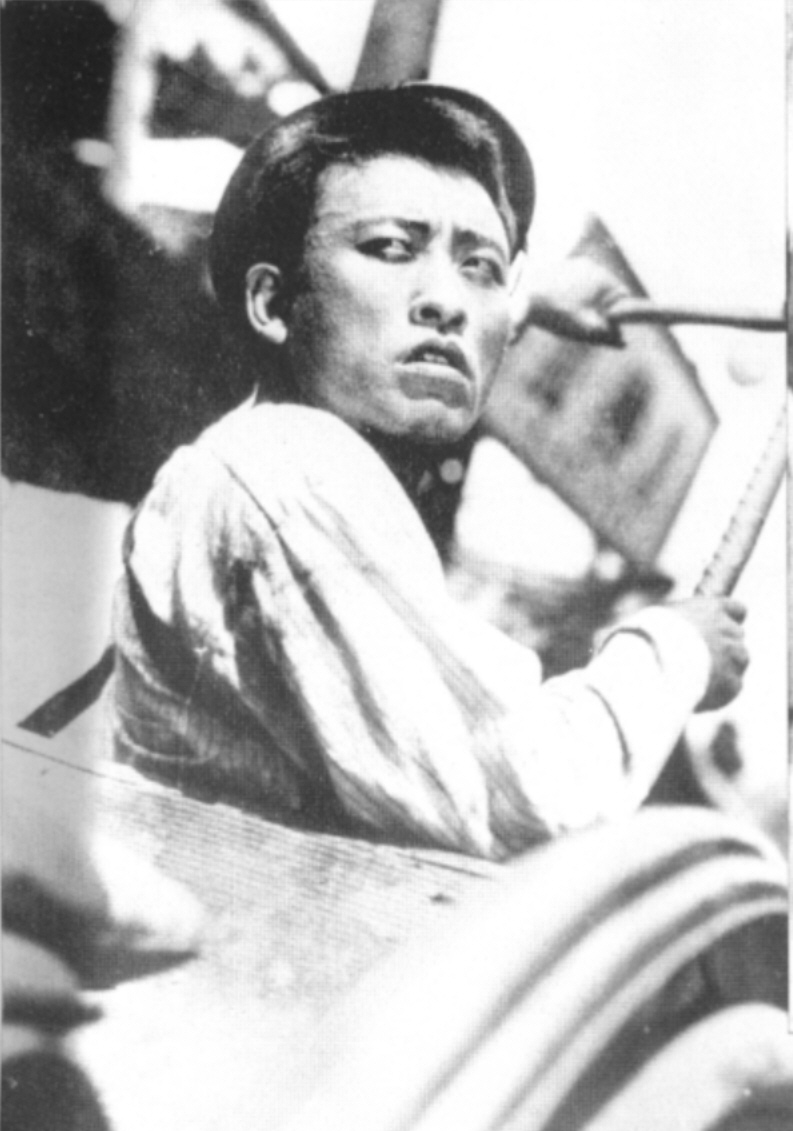 Promotional poster for the Na Woon-gyu (1902 – 1937) film, Cheolindo (1930).